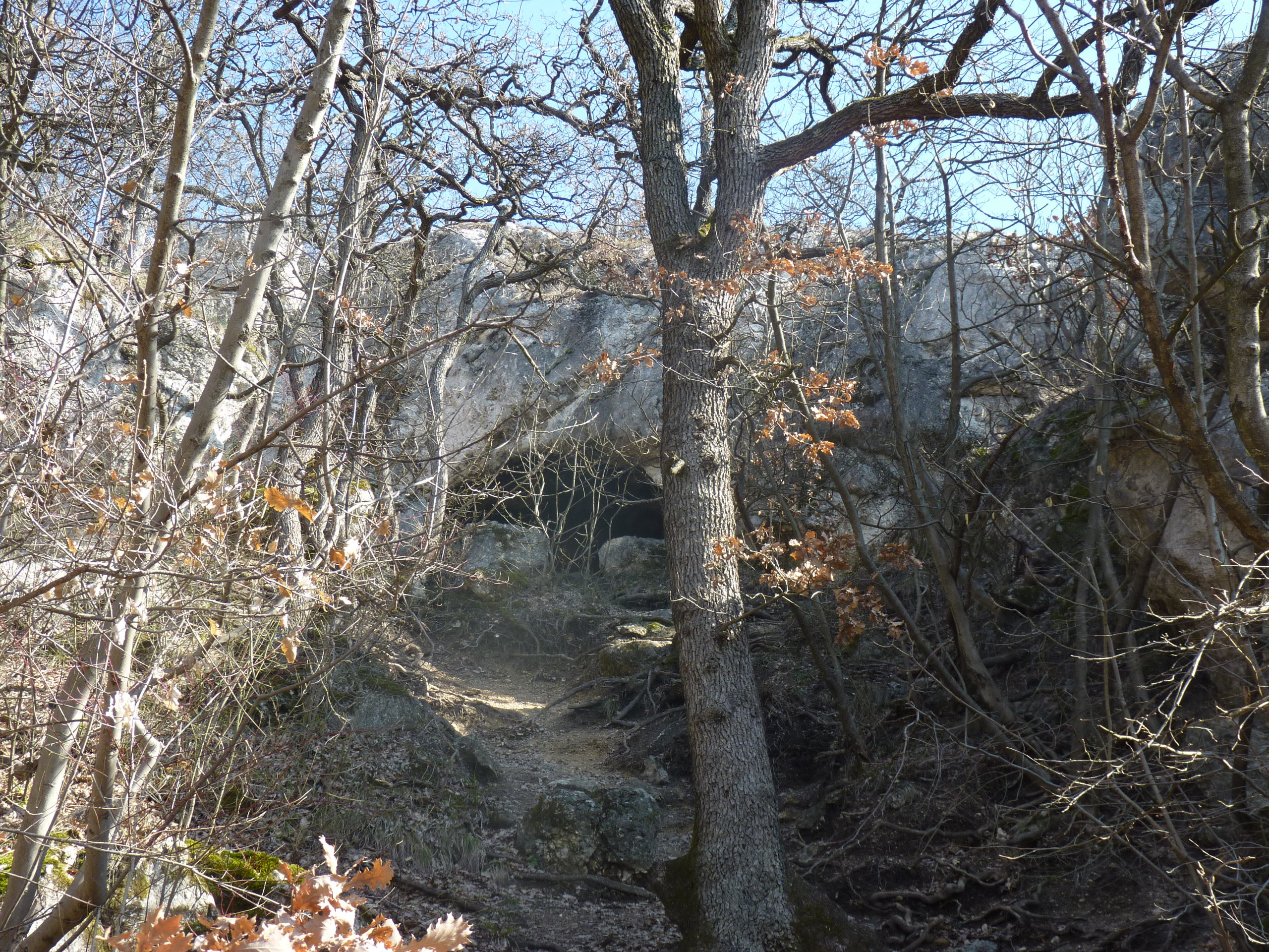 Nagy-Kevély Cave (Gyopáros Cave)